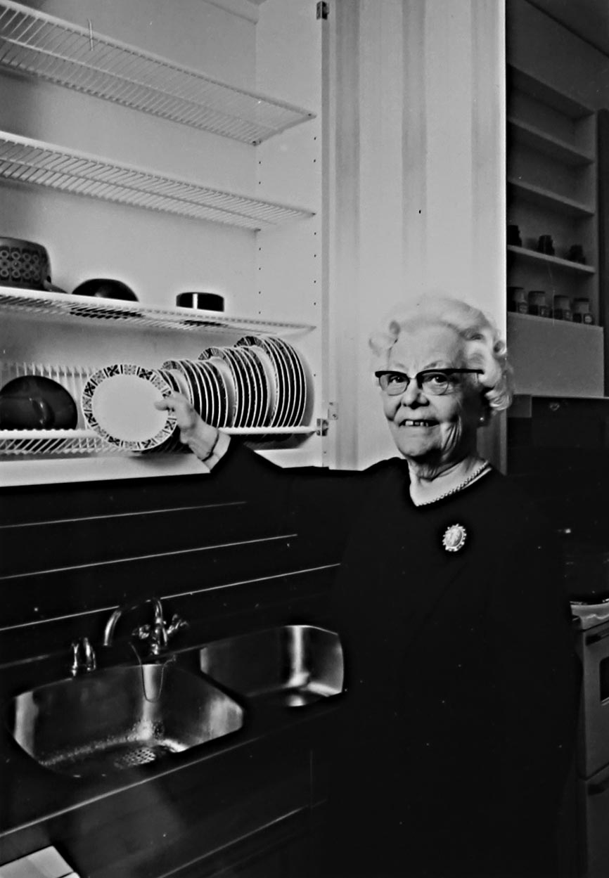 Maiju Gebhard (1896–1986), leader of the Household department at the Association for Work Effectivity in Finland posing in front of her invention, a drying cabinet.